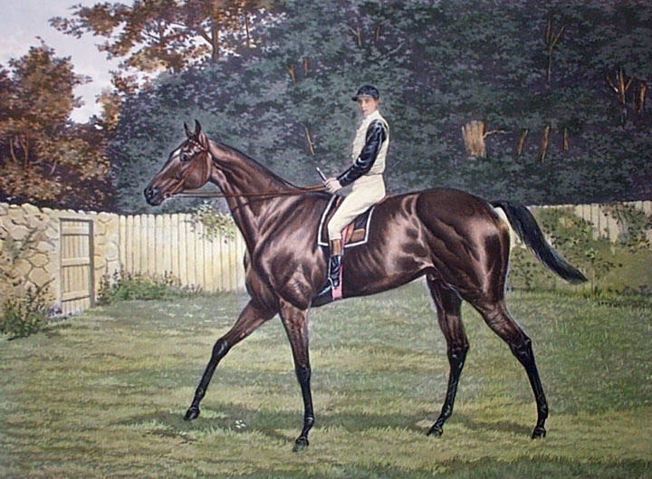 Painting of 1889 Derby winner Donovan, by Harrington Bird